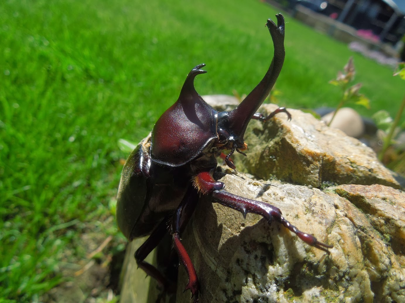 Trypoxylus dichotomus dichotomus, 80 mm